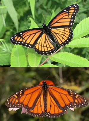 Possibly the most well known example of Müllerian mimicry, the Viceroy butterfly and the Monarch butterfly